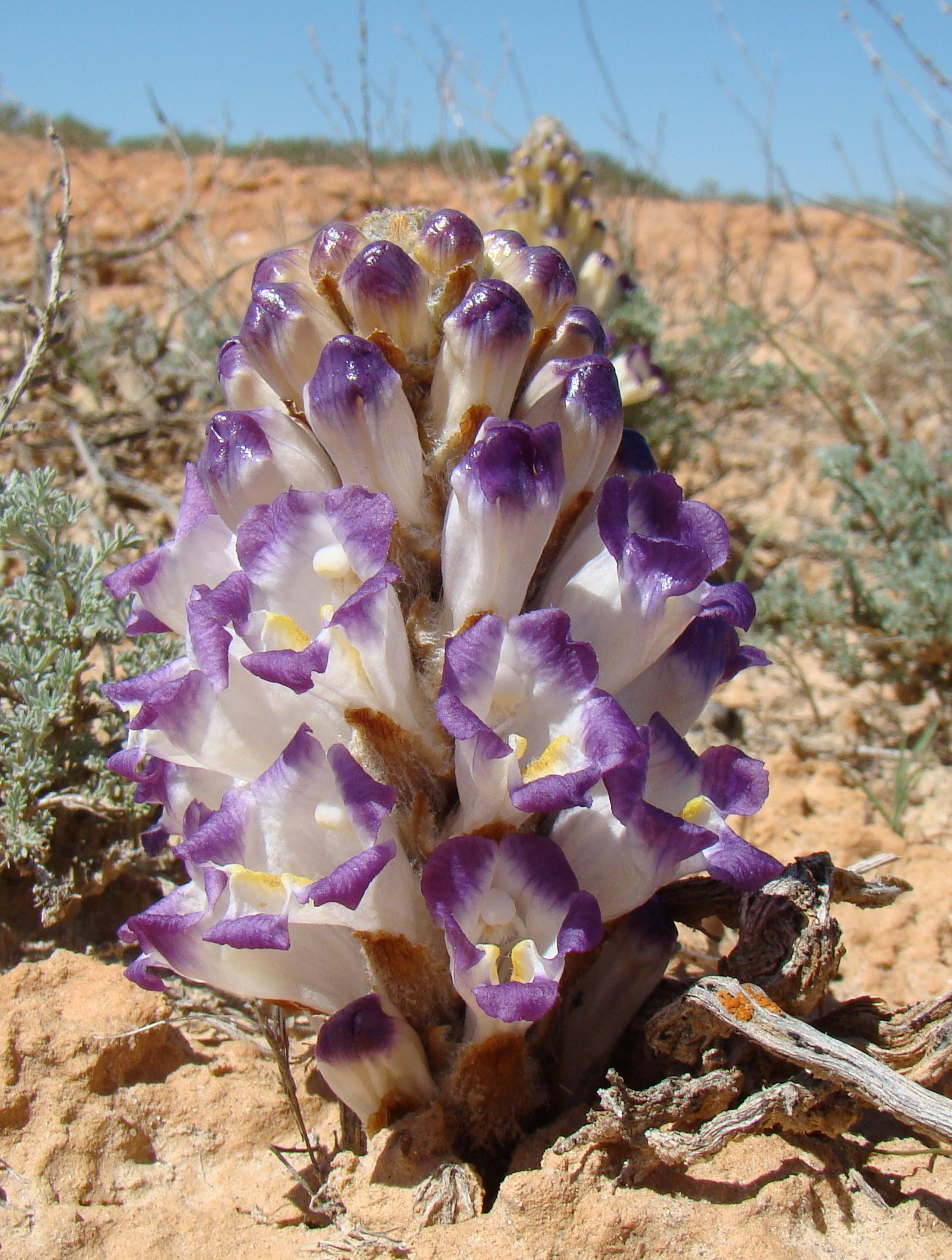 Flower of the parasite plant Cistanche salsa. Baikonur, Kazakhstan.